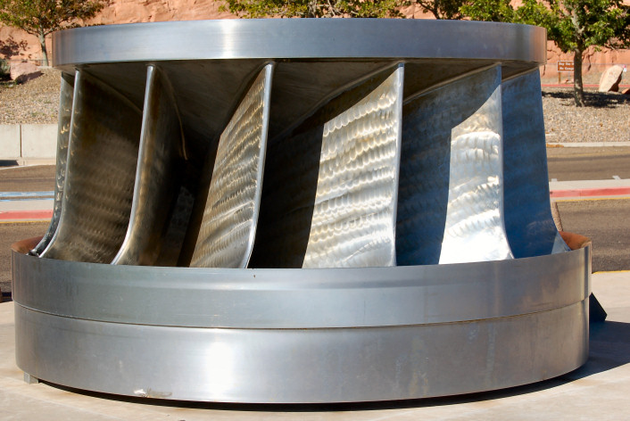 A Francis turbine runner on display at the Glen Canyon dam, Arizona. From the plaque next to this runner This stainless steel turbine runner was removed in 1989 from the Bureau of Reclamation's Crystal Dam Powerplant in Montrose, Colorado. Weighing about 8 1/2 tons, it is the rotating part of a Francis-type reaction turbine (named after its inventor James B. Francis) and is the type most widely by Reclamation. Although this runner is five times smaller than the runners in the Glen Canyon Powerplant, it operates in the same way.